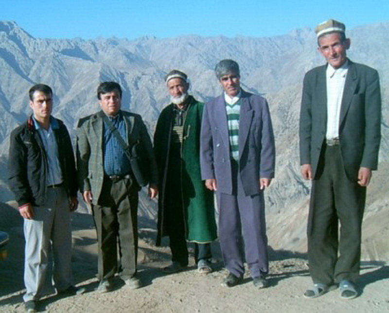 Yaghnobi People